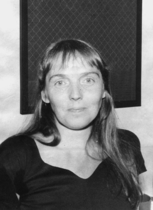 Artist Ulla Grigat in front of her own work during an exhibition in 1977.